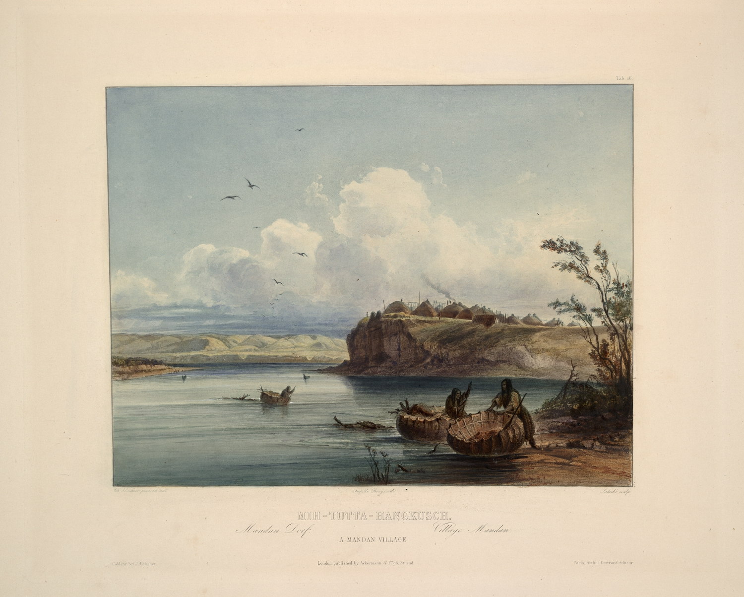 Aquatint by Karl Bodmer (1809 - 1893)